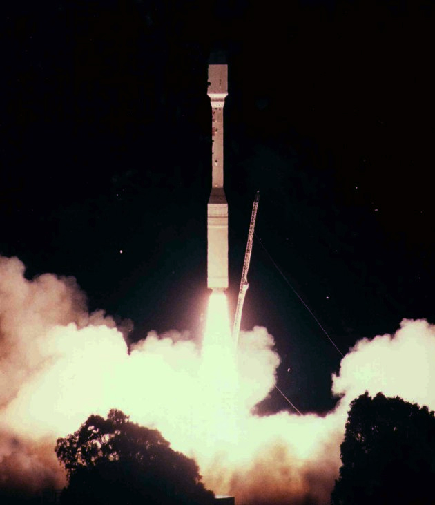 The US Navy's GeoSat Follow-On METOC satellite is launched atop a Taurus launch vehicle from Vandenberg AFB at 5:20 a.m. Tuesday, February 10th.